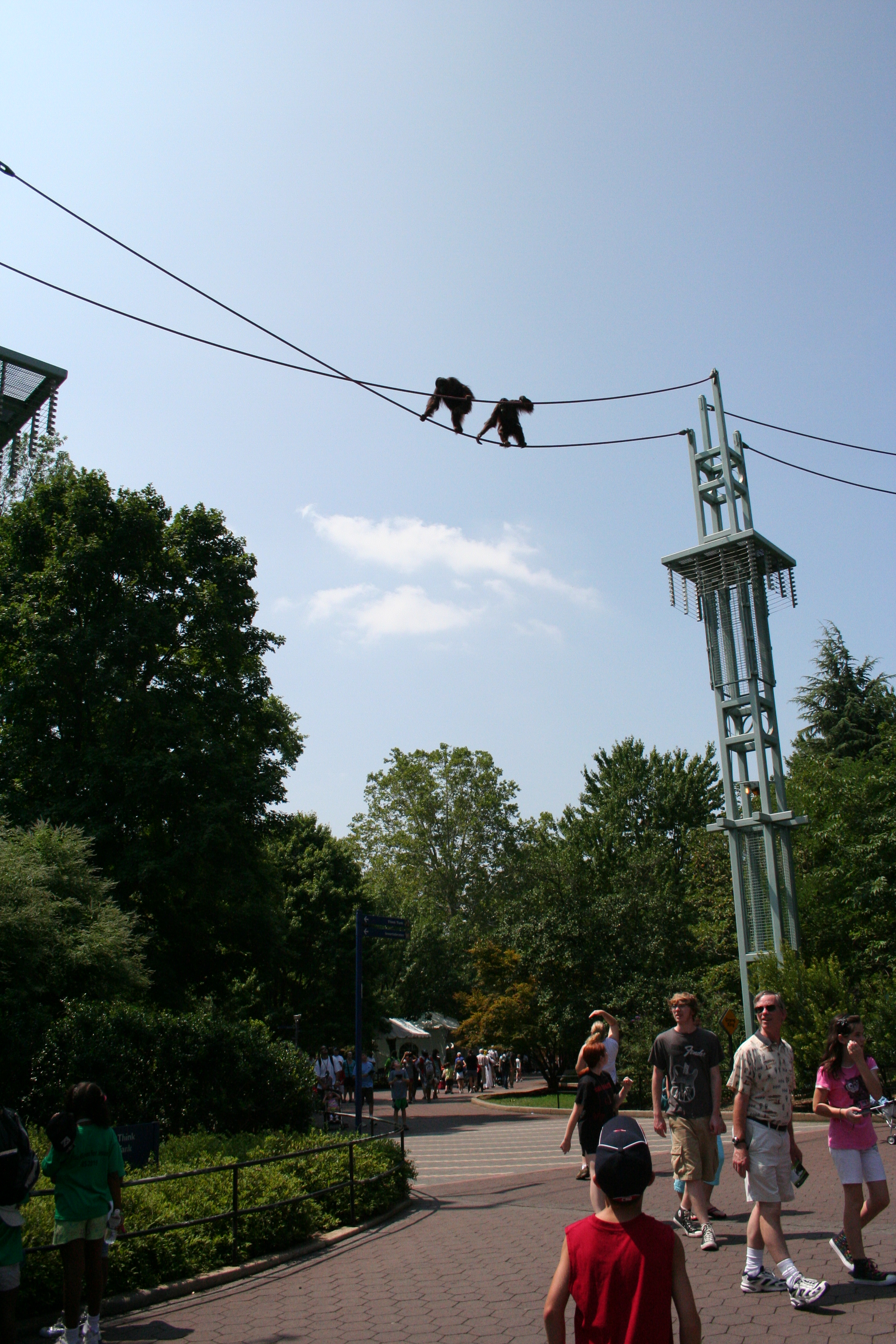 The "O line" at the National Zoo with two orangutans crossing over visitors. I accidentally left my camera setting on ISO800 after being in a dark indoor area so forgive me for any noise...should have gone with ISO100 obviously in bright daylight conditions. Pedestrian traffic was closed below the animals by park staff. Although the wiki article says on "mild days" they cross the O line, it was 95 degrees and incredibly hot that day.